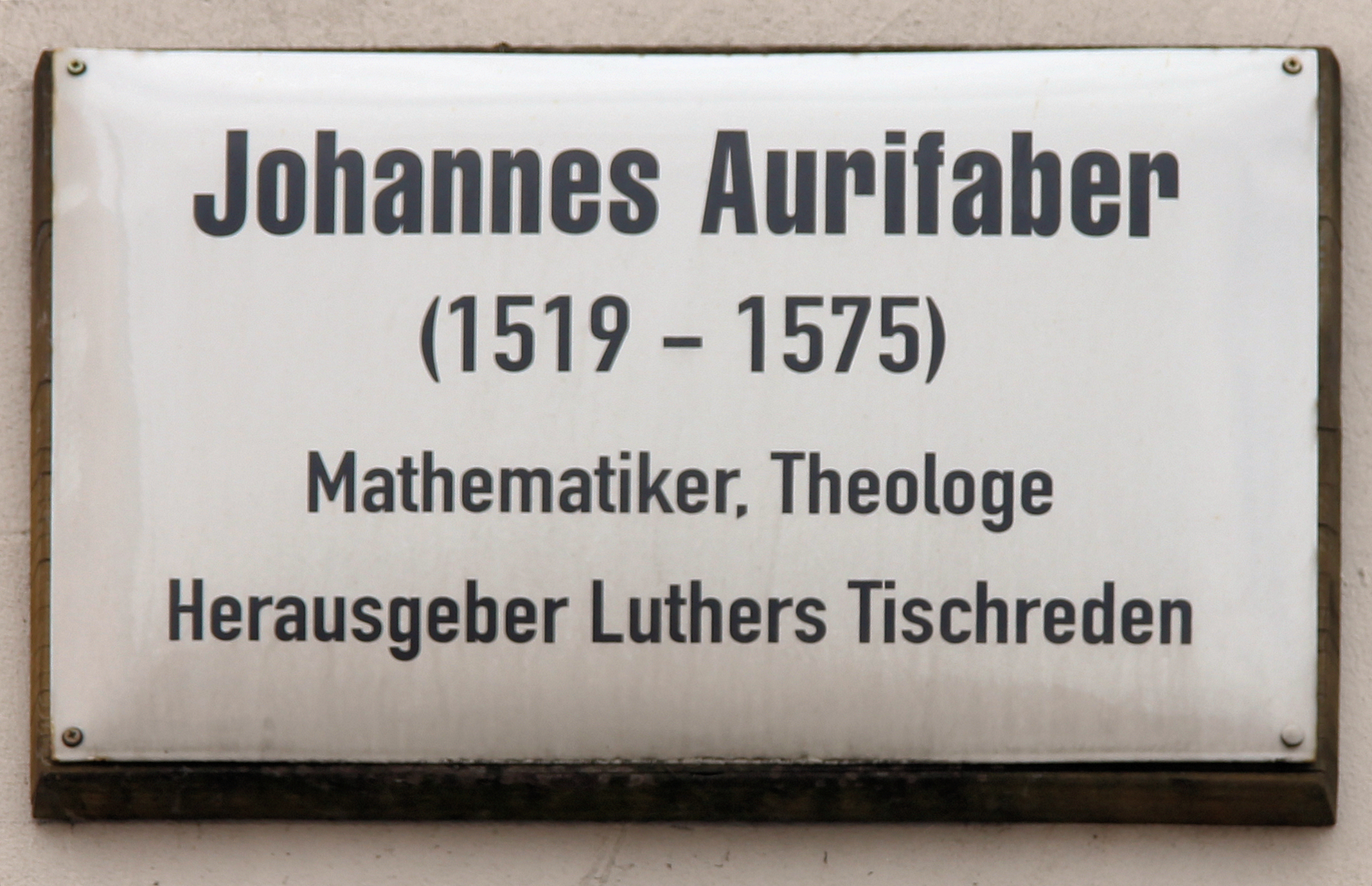 Memorial plaque, Johannes Aurifaber, Markt 6, Lutherstadt Wittenberg, Germany